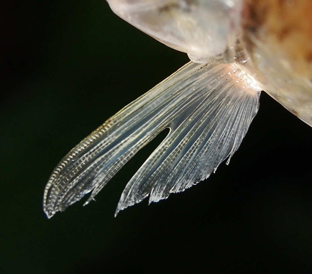 Barbonymus gonionotus, pectoral fin. From Cisadane River, Situgede, Bogor, West Java, Indonesia errata: Misidentified, it should be Mystacoleucus marginatus